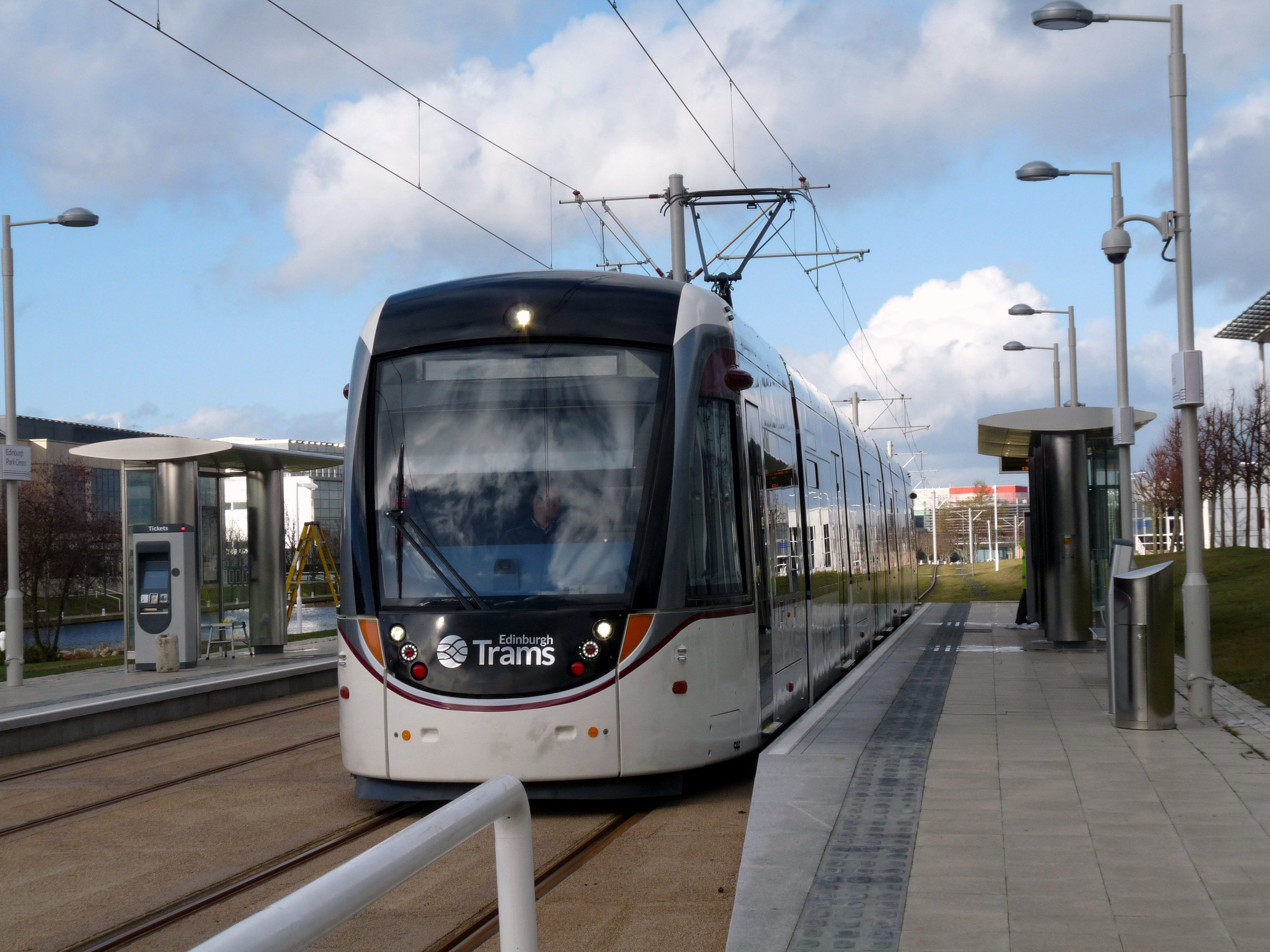 Edinburgh Park Central tram stop, on the route of Edinburgh Trams.